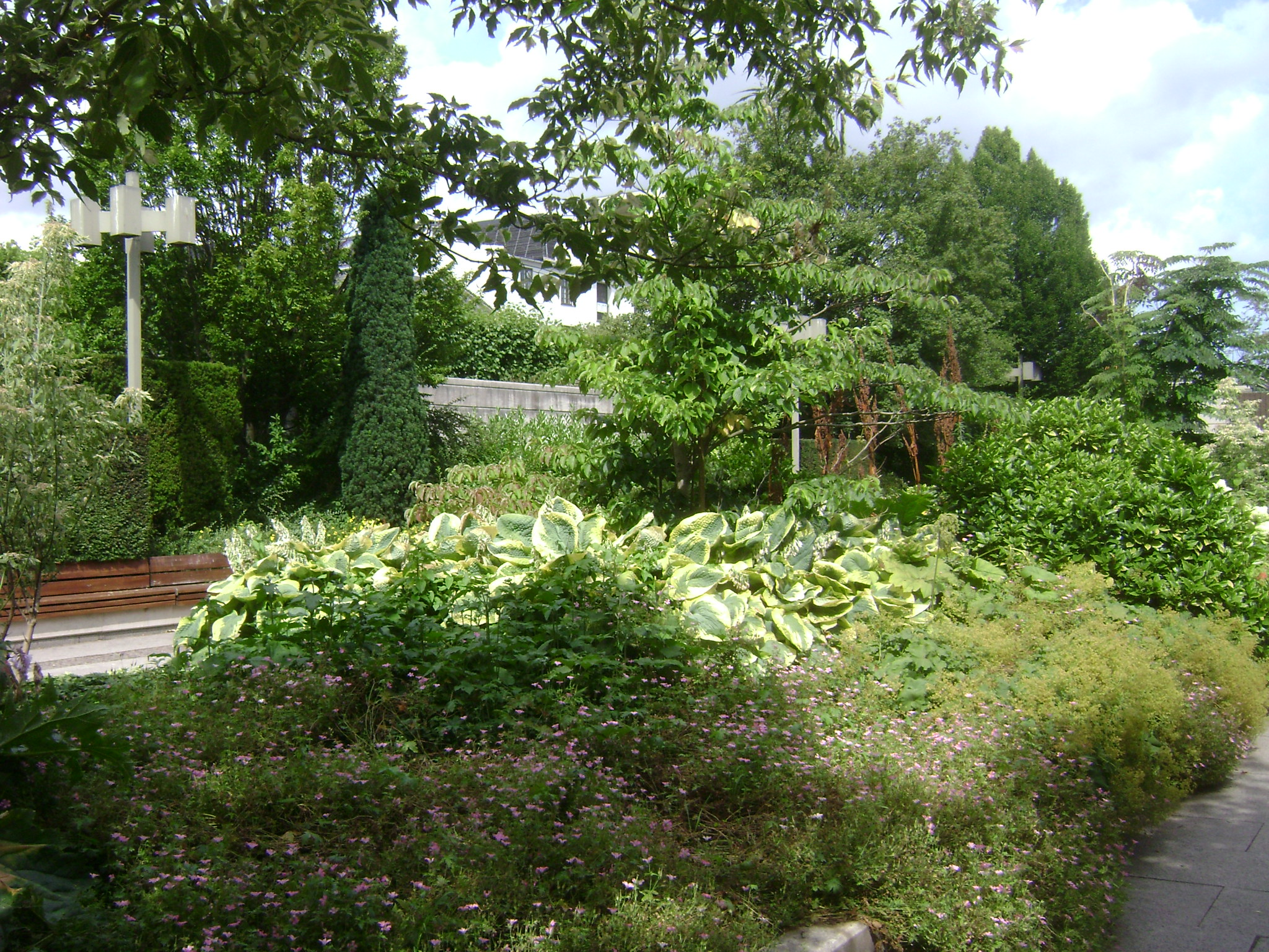 Denmark. Capital Region. Copenhagen